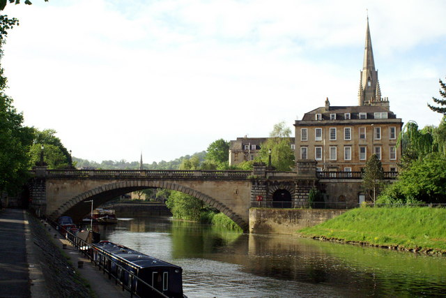 North Parade Bridge , River Avon, Bath